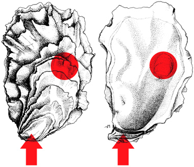 How to open an oyster